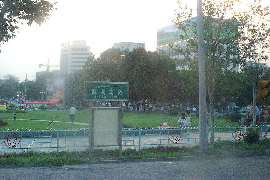 Shengli Nanlu (S: 胜利南路, T: 勝利南路, P: Shèng​lì Nánlù) and the town square of Yining, Xinjiang, China, at dusk.